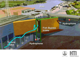 Example of acoustic fish track as the fish swam through the fish in-take.